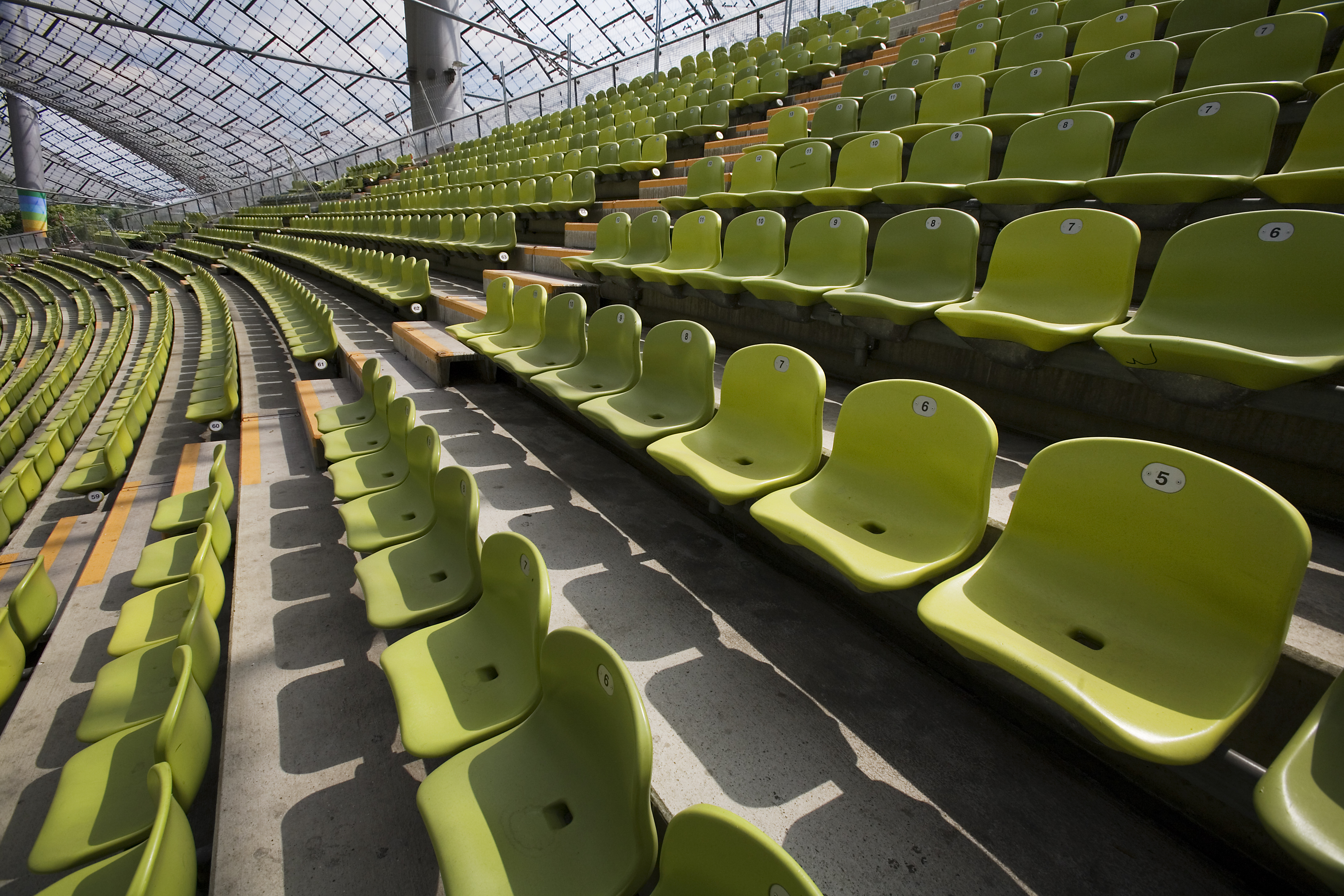 Frei Otto Tensed structures for the Munich 72 Olympic Games. Olympic Stadium and park. Munich Germany